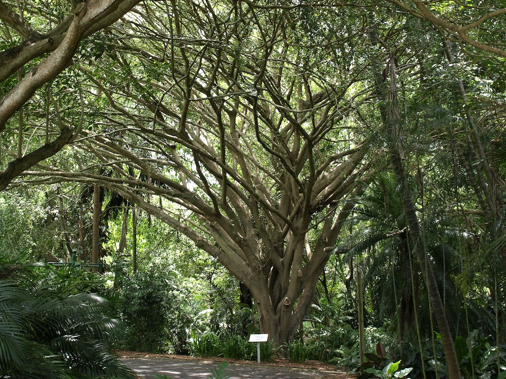 This magnificent Weeping Fig (Ficus benjamina) provides a shady home for many of the creatures found in the Brisbane Botanic Gardens Mt Coot-tha.